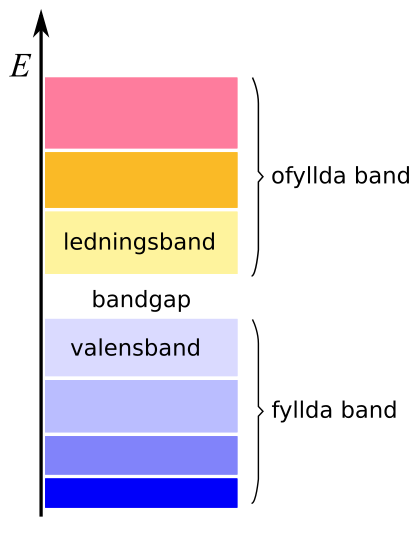 Electronic band diagram